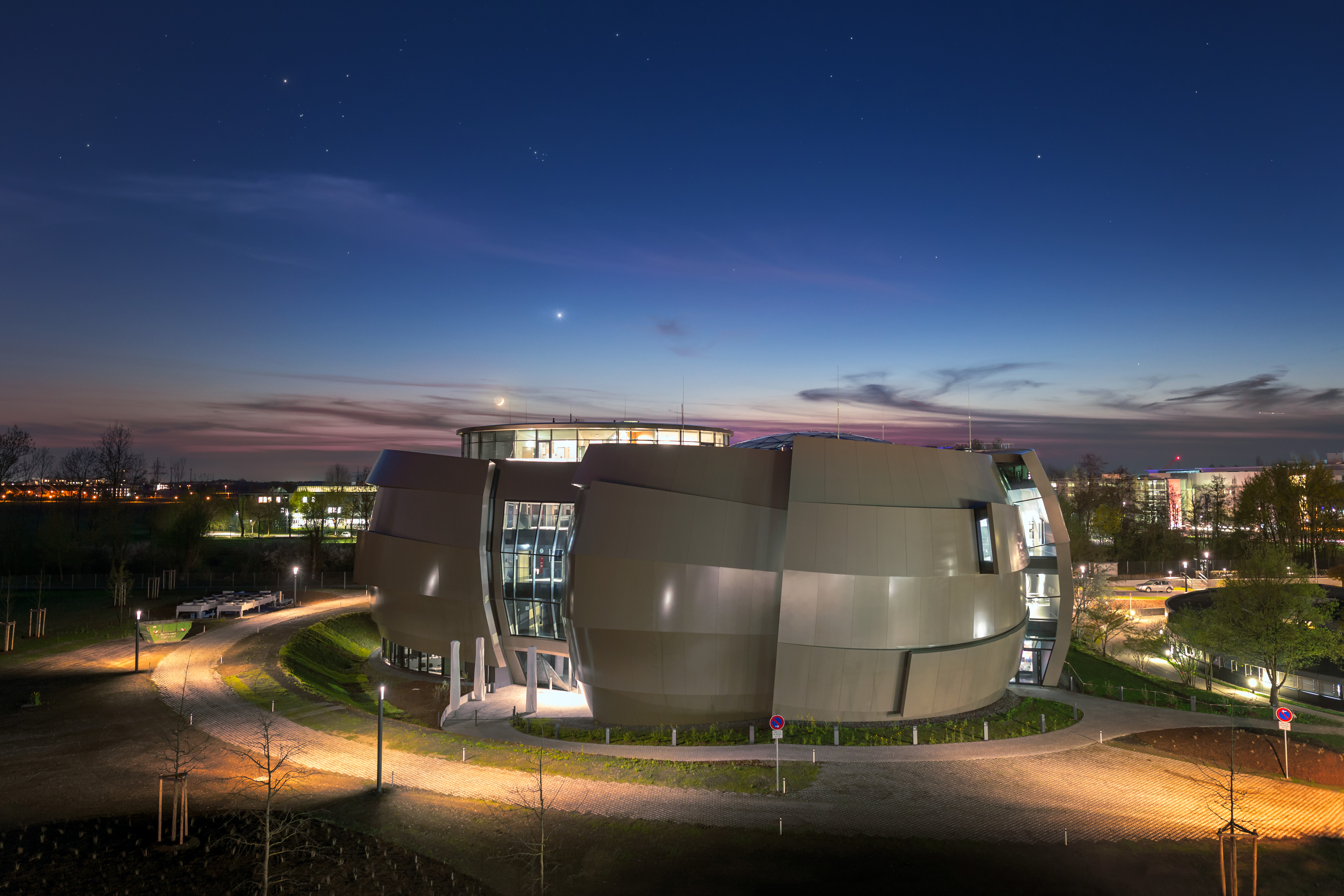 On 26 April 2018, the ESO Supernova Planetarium & Visitor Centre was officially inaugurated, and its doors are open to the public from 28 April 2018. The centre, located at ESO Headquarters in Garching, Germany, is a magnificent showcase of astronomy. It provides visitors with an immersive experience of astronomy in general, along with ESO-specific scientific results, projects, and technological breakthroughs. This spectacular evening picture, taken a few days before the opening, shows a conjunction of the planet Venus and the young crescent Moon in the background.